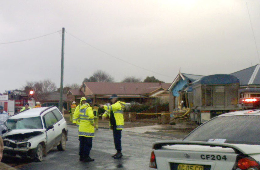 Accident involving a truck and car at Eglinton, NSW (Bathurst) on July 3, 2006.